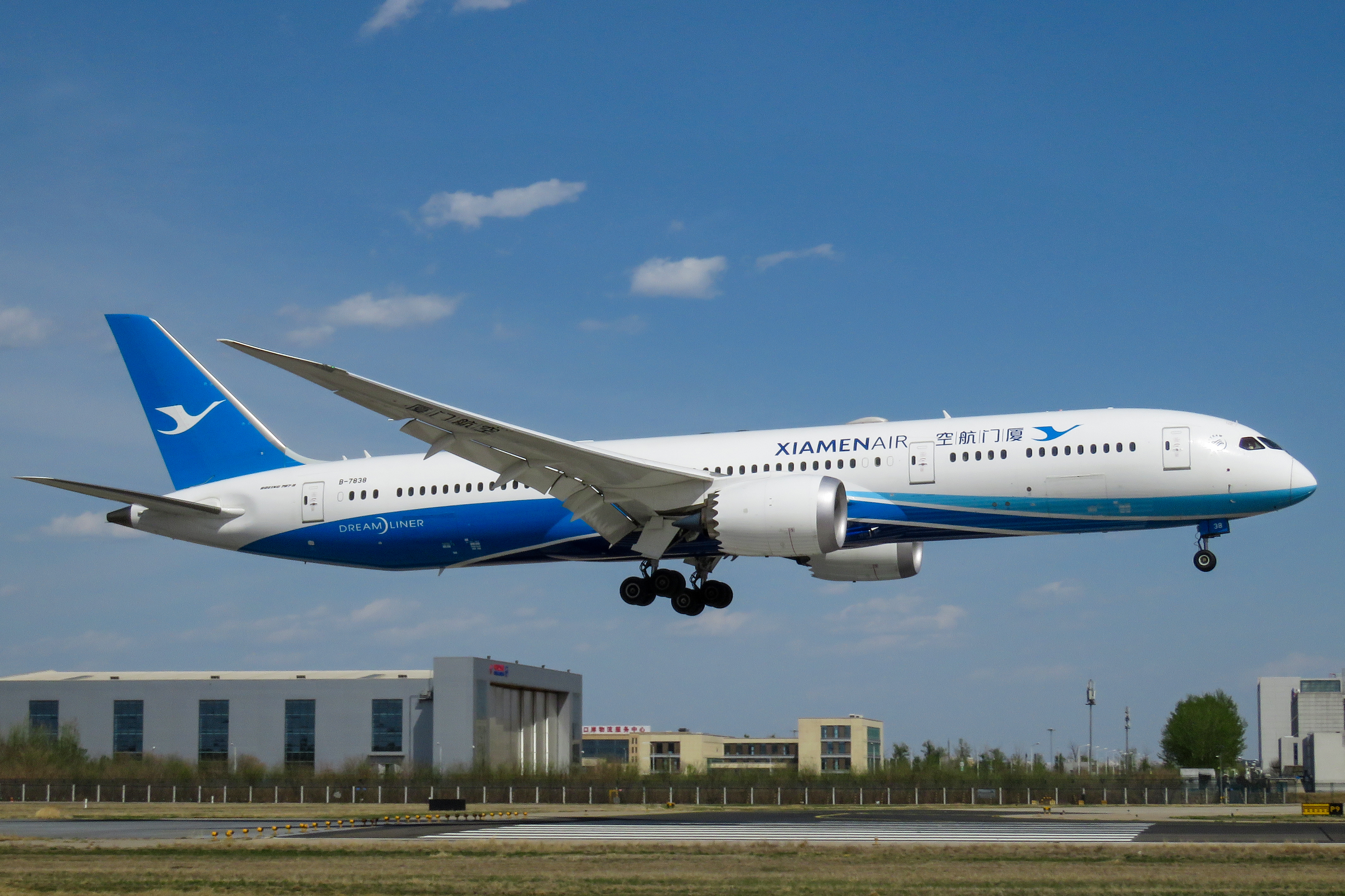 Egret 8191 from Changsha.